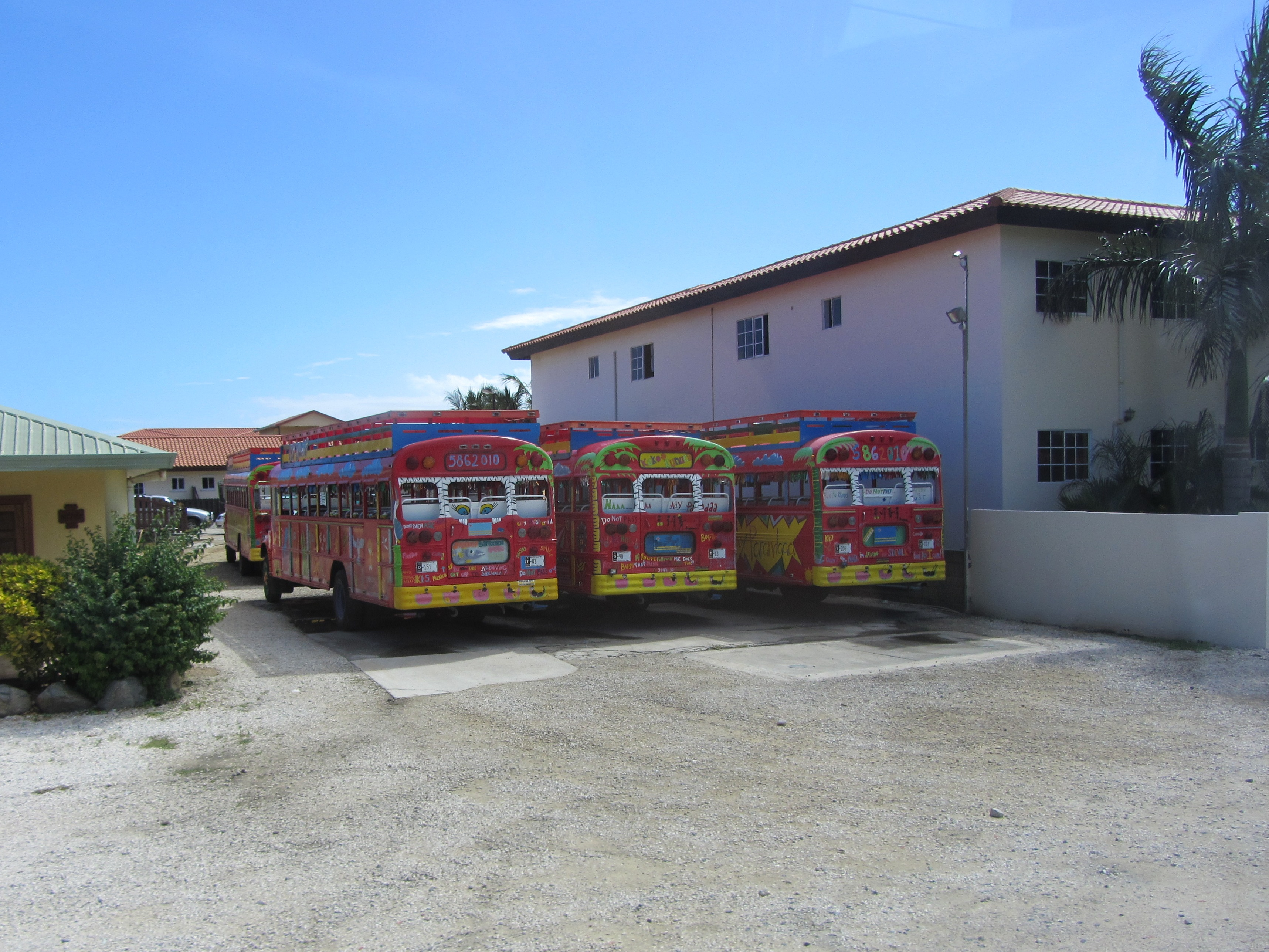 Tourist buses in Aruba - Picture was taken through a bus window.